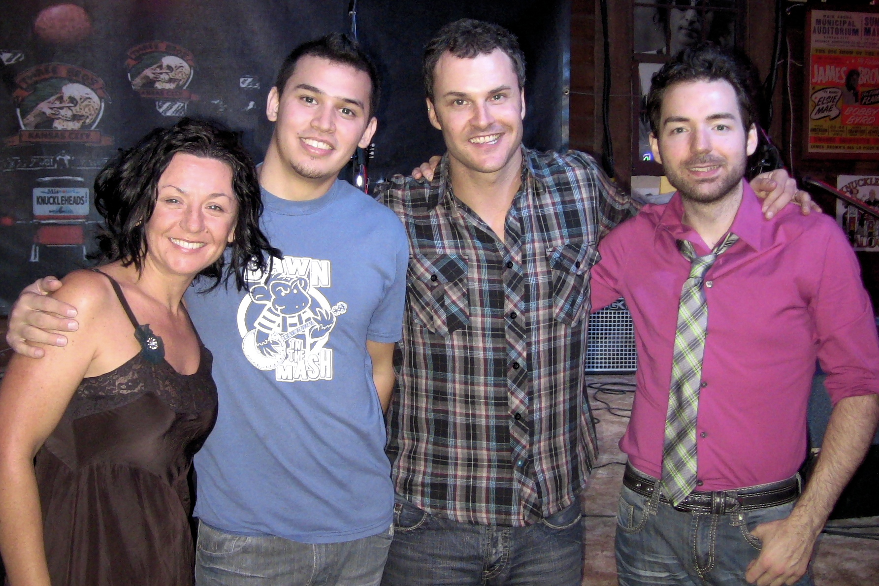 The Greencards after a concert at Knuckleheads Saloon in Kansas City, Missouri